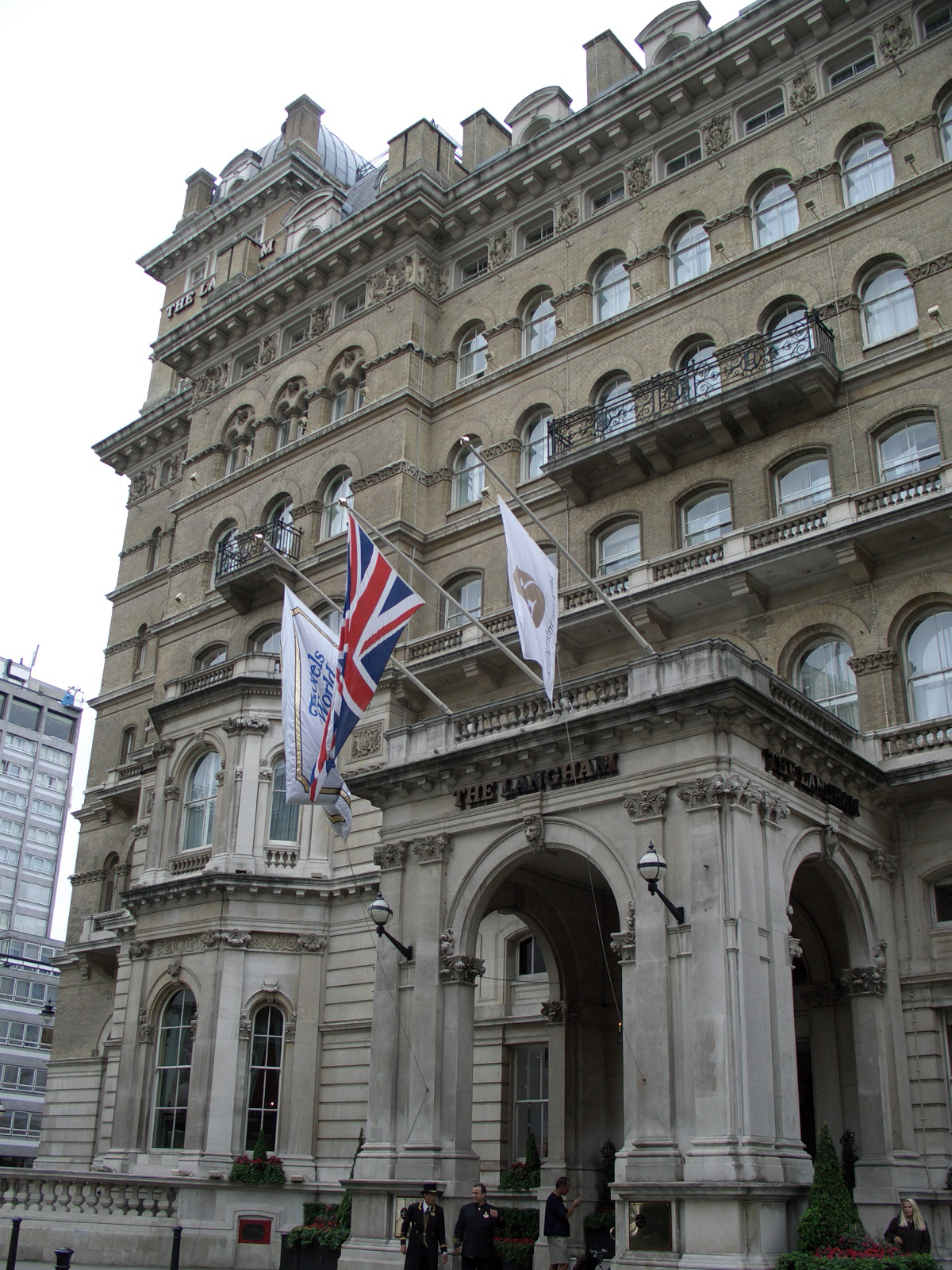 The Langham Hotel in London, EnglandThe Langham